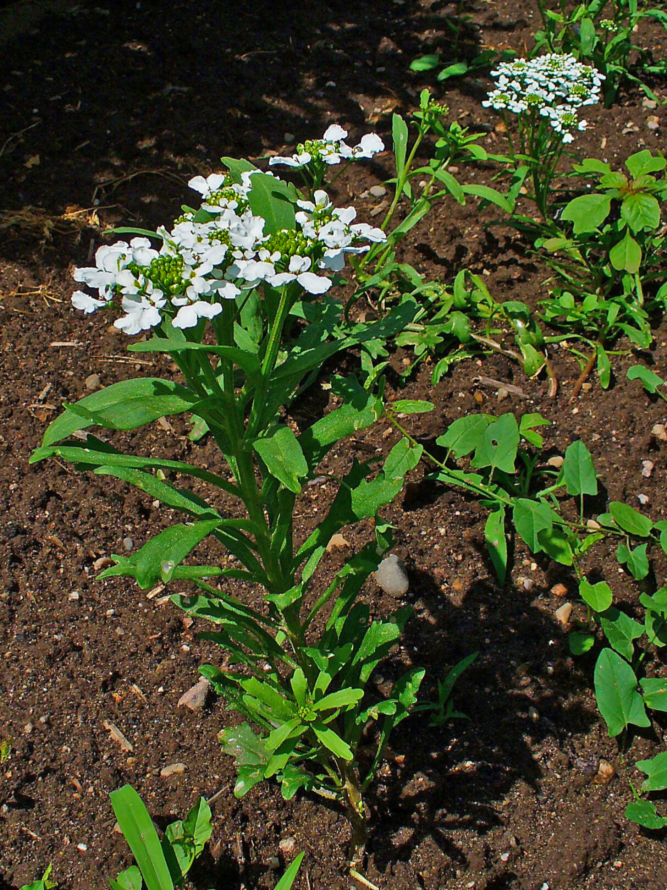 Iberis amara, Brassicaceae, Bitter Candytuft, habitus. The dried, ripe seeds are used in homeopathy as remedy: Iberis amara (Iber.)